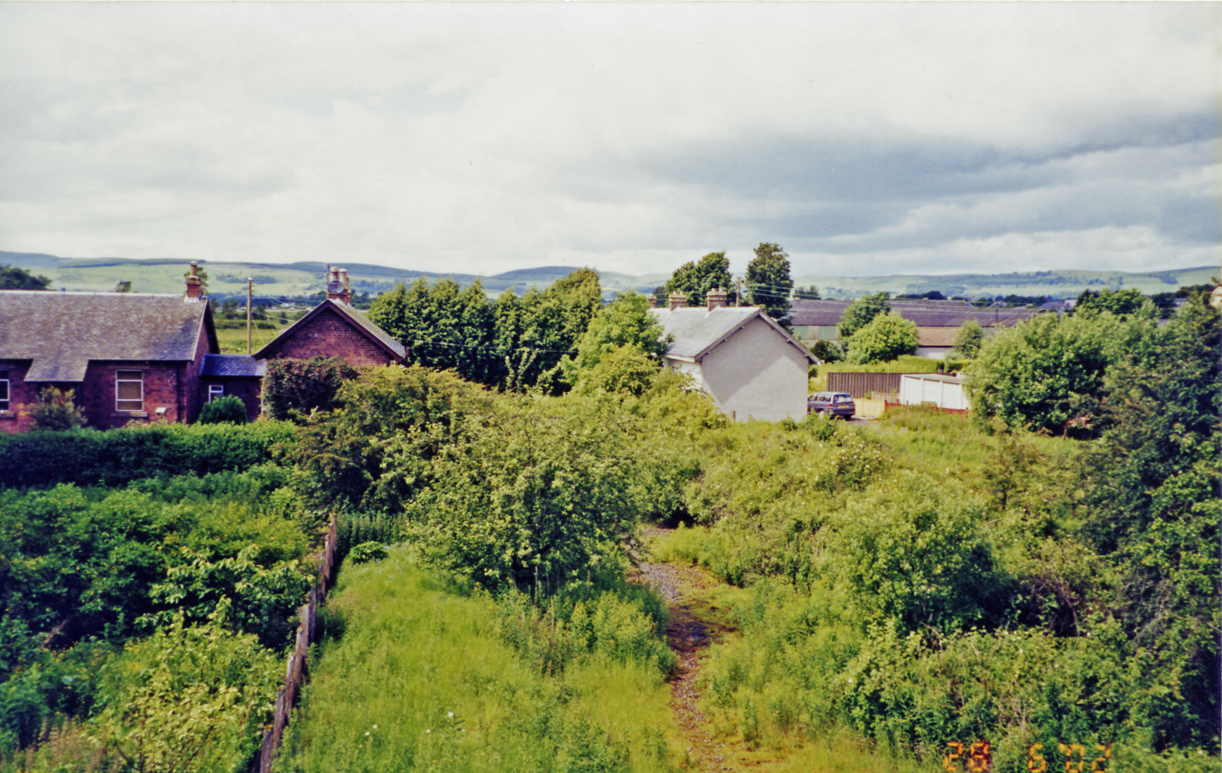 Kinross: site of former Loch Leven station, 2002. View NW from a surviving bridge, towards Kinross Junction - Milnathort - Mawcarse Junction, Bridge of Earn and Perth: ex-NBR Edinburgh/Glasgow - Forth Bridge - Dunfermline - Cowdenbeath - Perth main line! The station had been closed to passengers since 1/9/21, to goods since 29/3/65. The main line to Perth was abandoned from 5/1/70 Cowdenbeath - Kelty and Milnathort - Bridge of Earn, Kelty - Milnathort from 4/5/70. Since then Perth has had to be reached by a roundabout route via Thornton Junction (now Glenrothes), Ladyburn and Newburgh. Meanwhile the M90 motorway has been built, much of it along the course of the former main line to Perth. The motorway is not quite visible in the photograph but is just behind the houses. On the skyline are the Ochil Hills, including Sludgie Hill (1,354 ft.) and Dochrie Hill (1,194 ft.). Loch Leven itself stretches behind the camera.